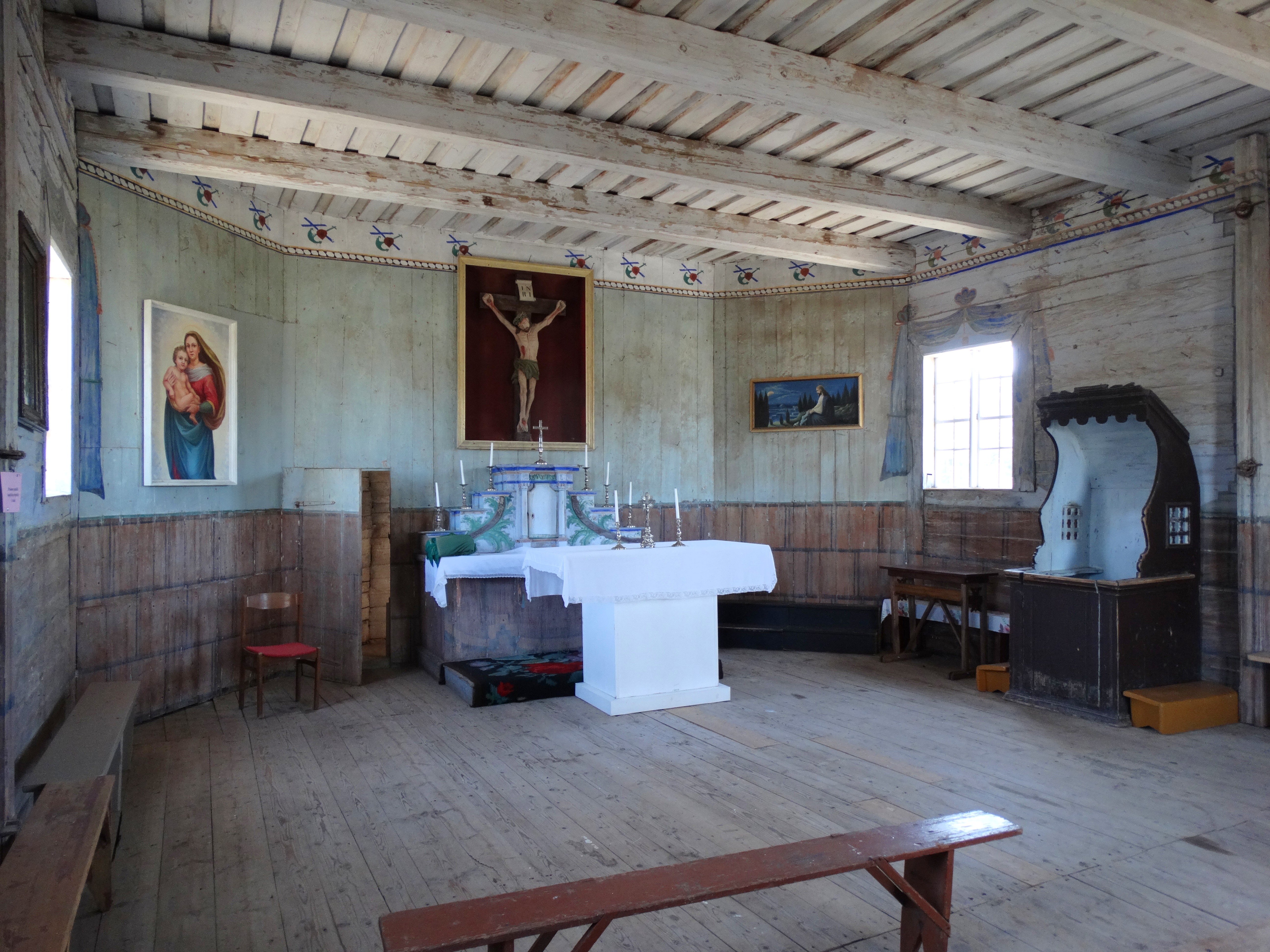 Alsėdžiai cemetery chapel, Plungė District, Lithuania